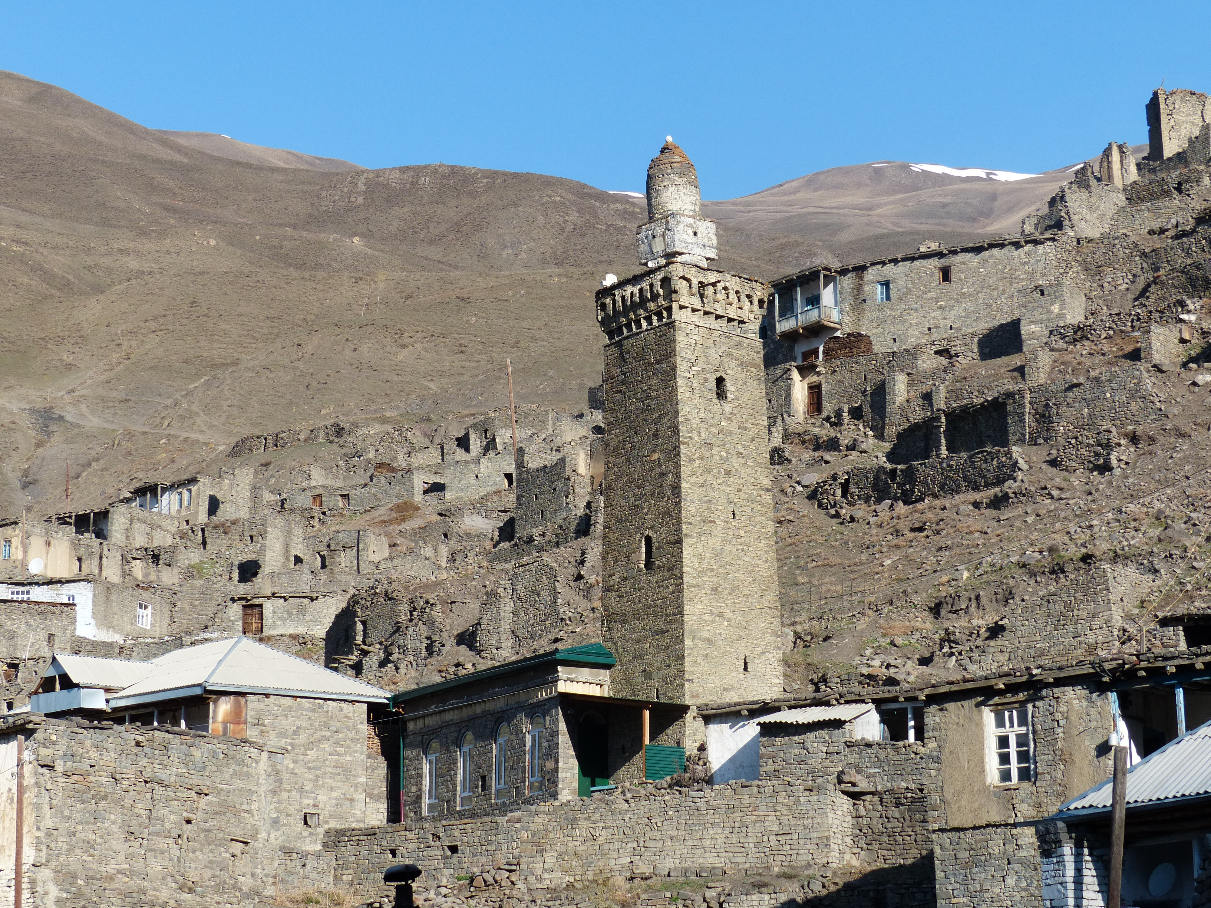 The minaret at the village of Shinaz, Rutulsky district, Russian Federation